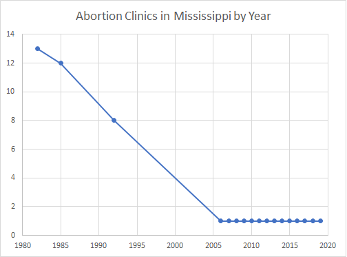 Total number of abortion clinics by year in Mississippi based on data from